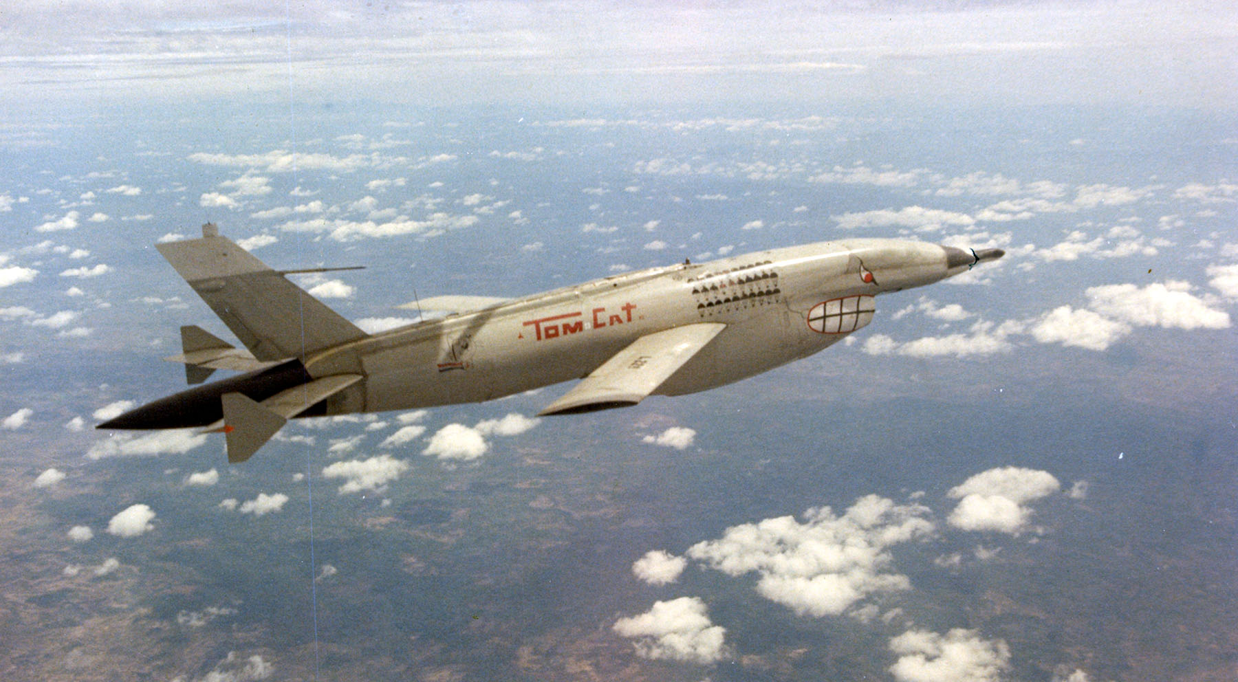 The U.S. Air Force Ryan AQM-34L Firebee drone "Tom Cat" of the 556th Reconnaissance Squadron flew 68 missions over North Vietnam before being shot down by anti-aircraft fire over Hanoi.